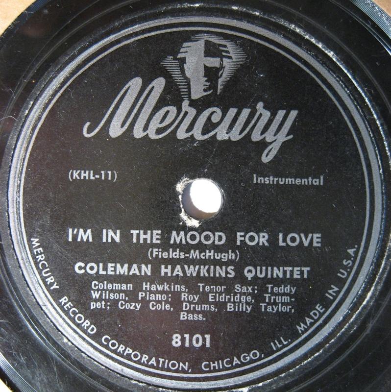 78s coleman Hawkins I'm in the Mood for Love